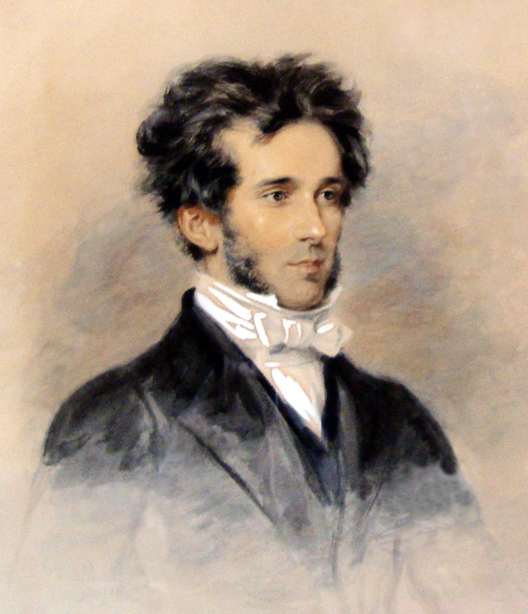 Watercolor portrait of Theophilus Thompson, M.D. (1807-1860) by Alfred Essex (d. 1871)